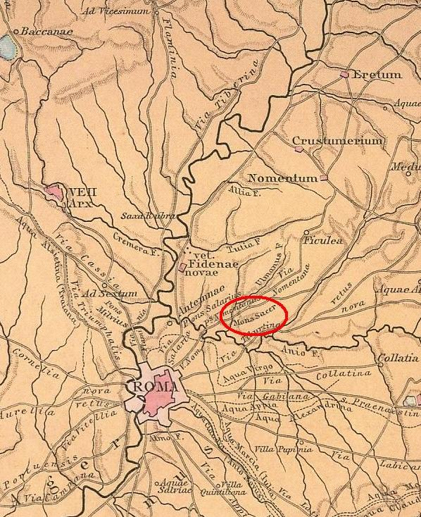 Localization of the Mons Sacer, between the river Aniene (Anio) and the ancient Via Nomentana.